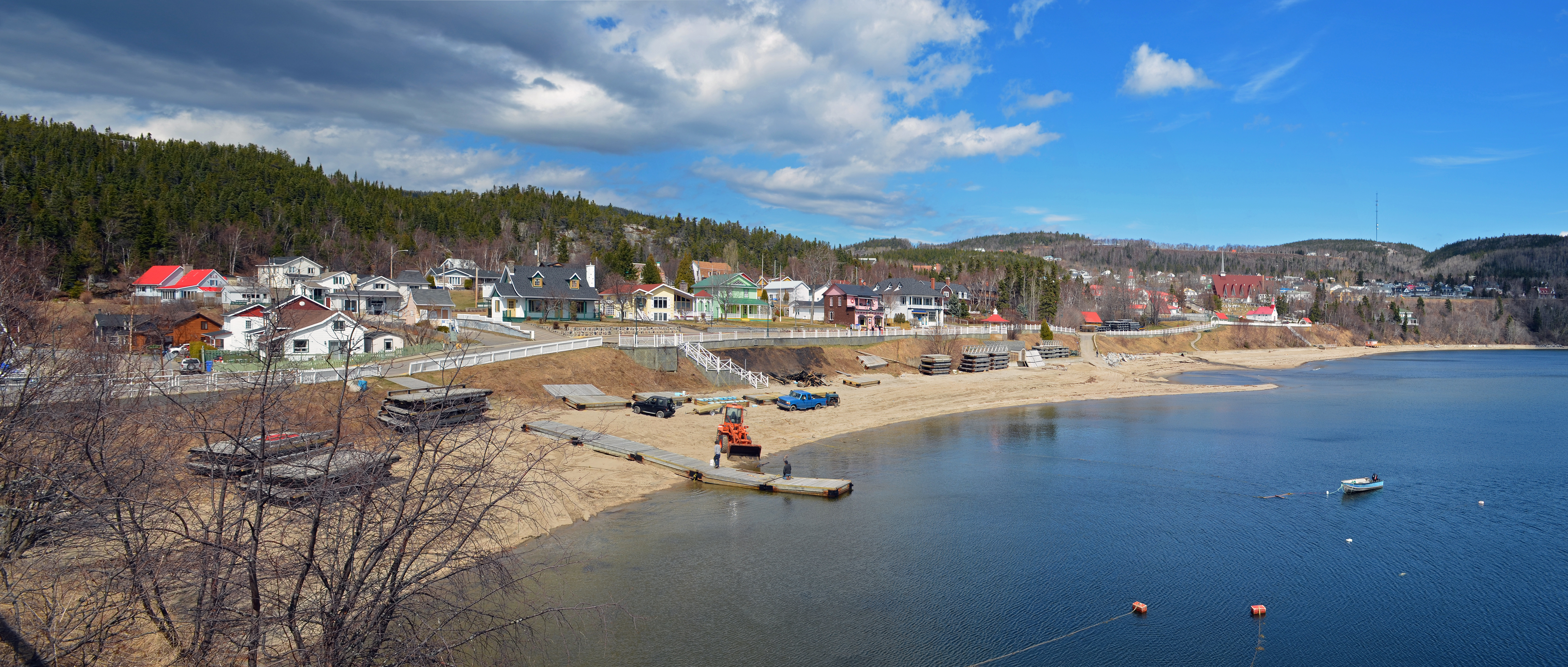 Panoramic view of Tadoussac bay - Tadoussac, Quebec